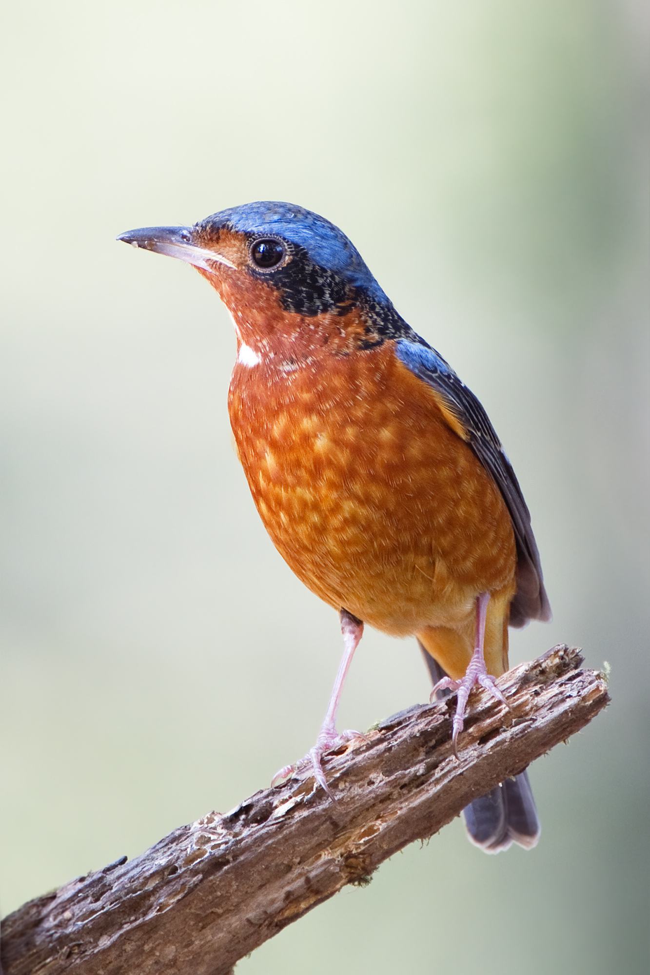 White-throated Rock-thrush (Monticola gularis), Khao Yai National Park, Pak Chong, Thailand